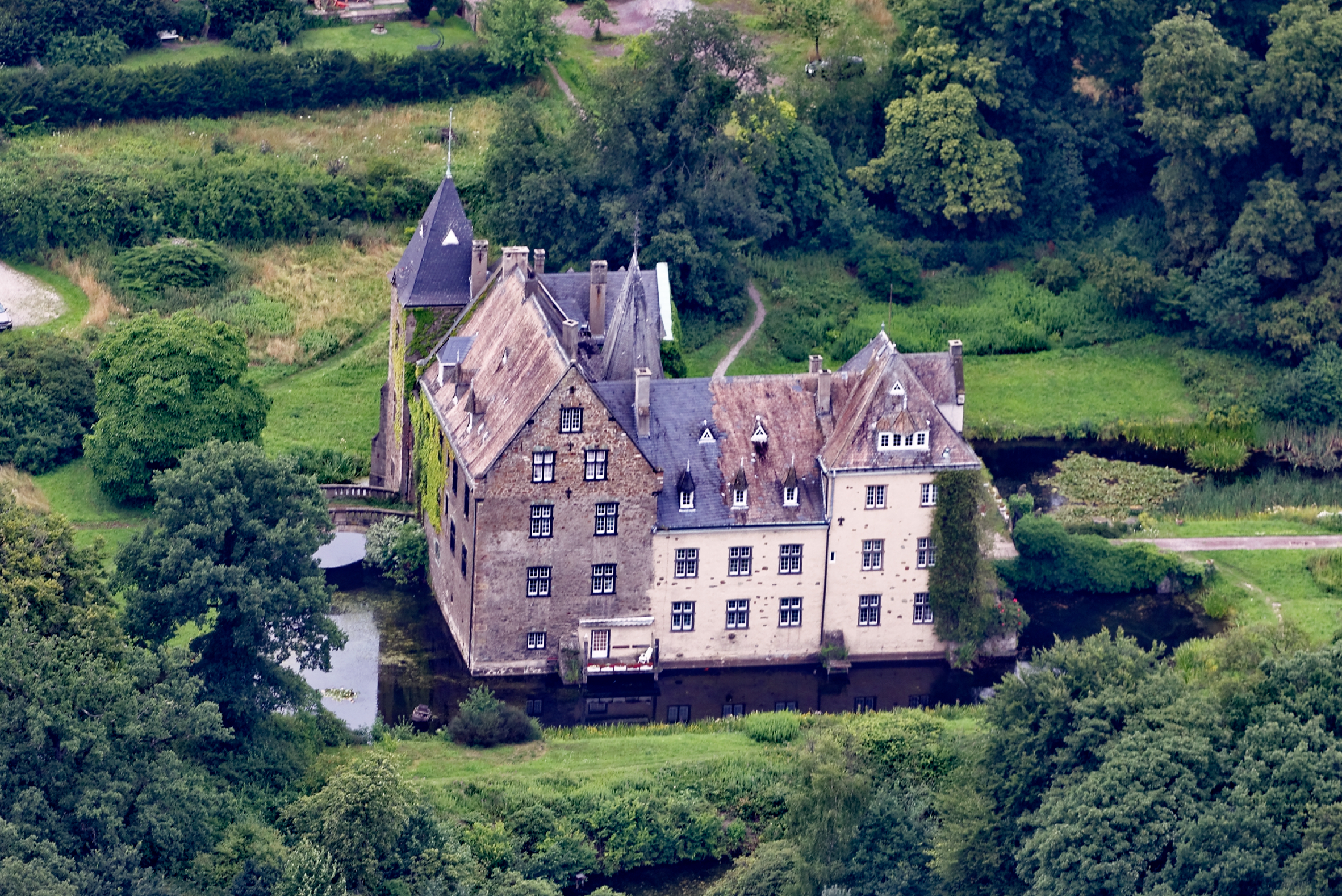 Schloss Höllinghofen The making of this document was supported by the Community-Budget of Wikimedia Germany.